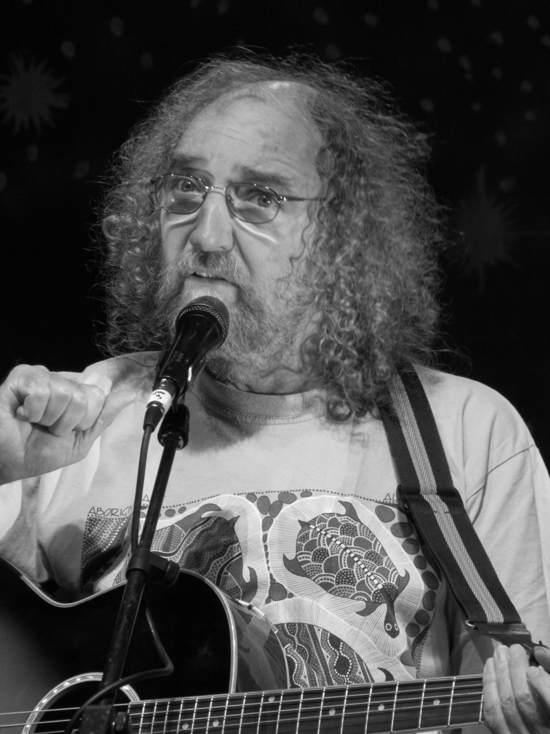 English folk singer and songwriter Vin Garbutt performing at the Australian National Folk Festival in Canberra in 2010.